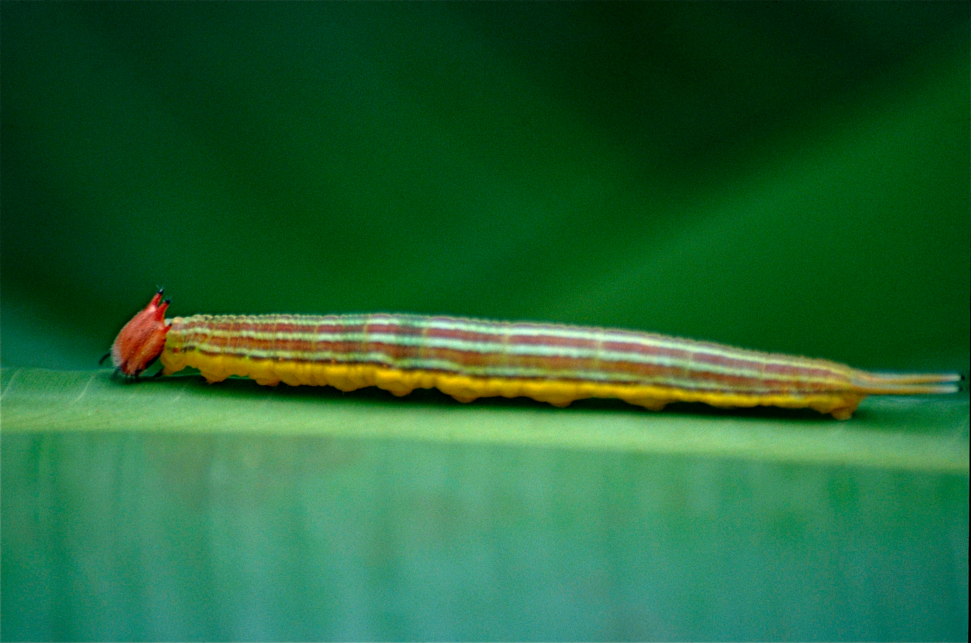 Route de Regina, Guyane, FRANCE Scanned Slide from 2000